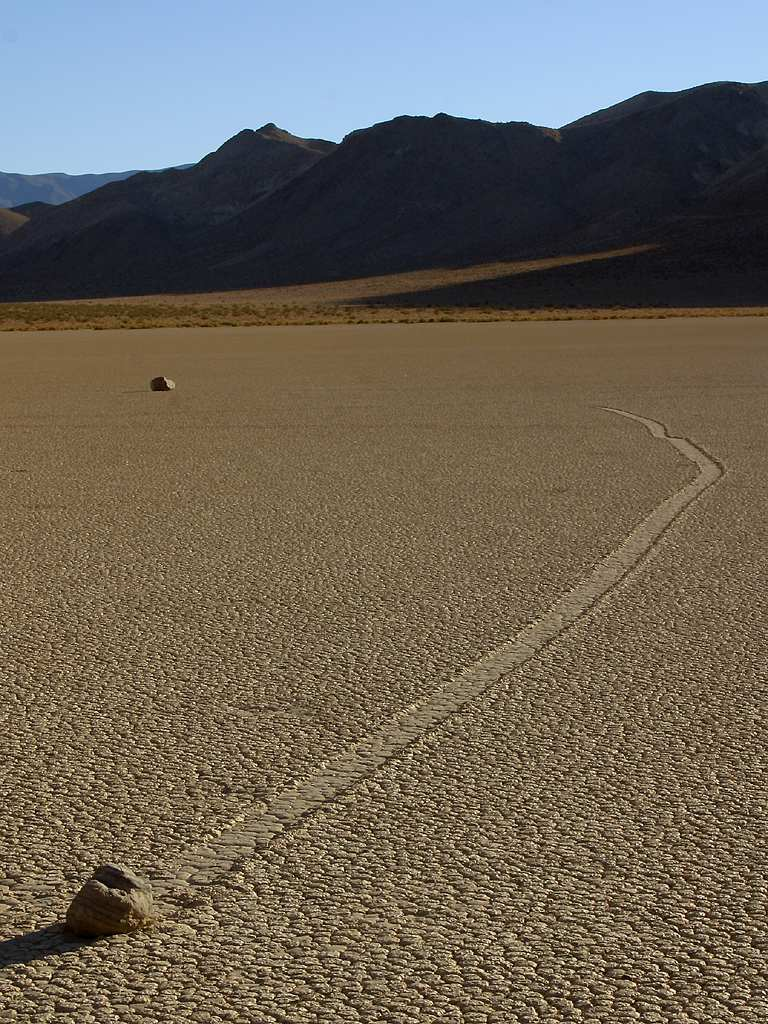 Sliding rock of Racetrack Playa